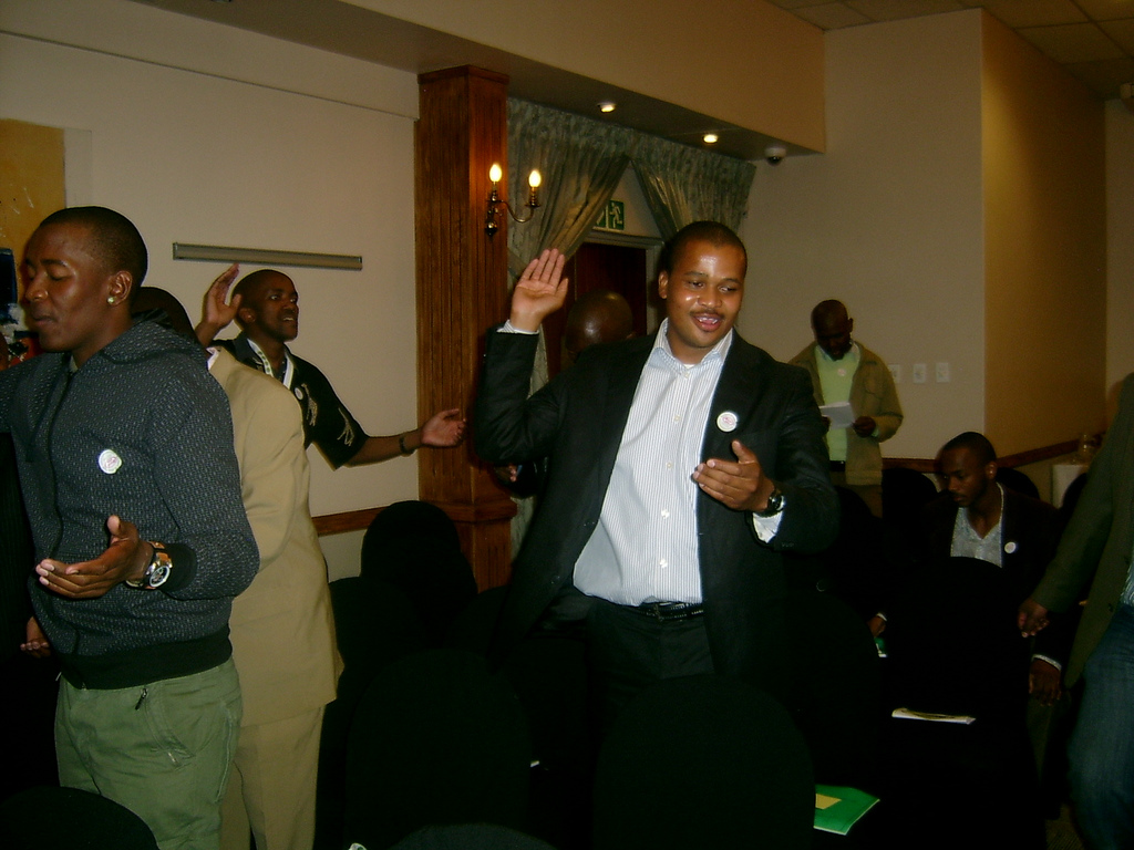 Guests at the 1st Annual Mayihlome Lecture